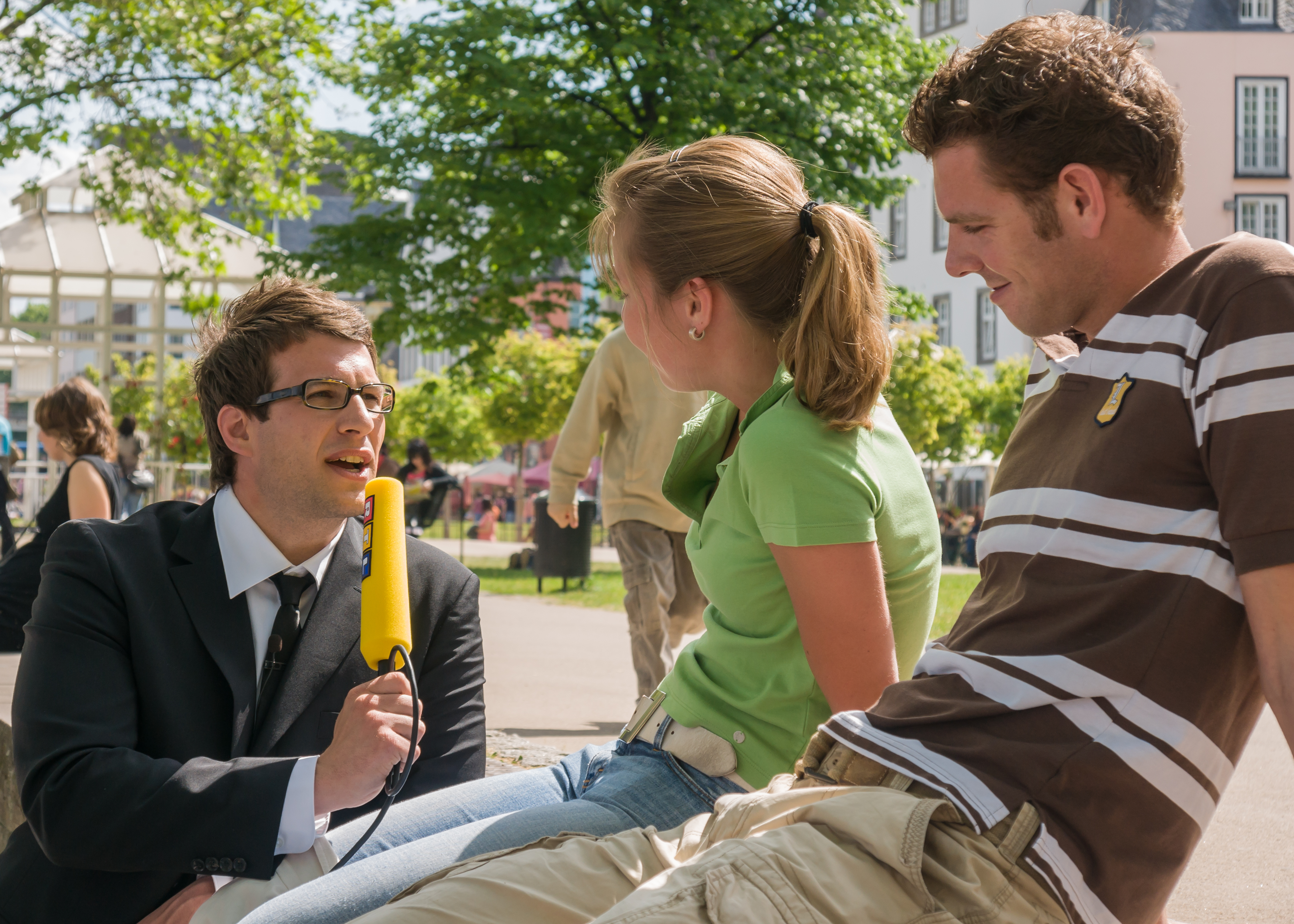 Cologne, Germany: RTL moderator Daniel Hartwich is interviewing people at the Rheingarten, Cologne